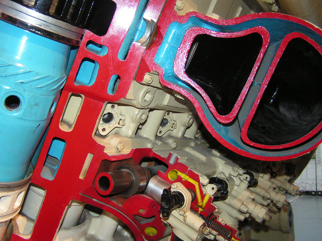 Cut away of a Napier Deltic Engine, National Railway Museum, York